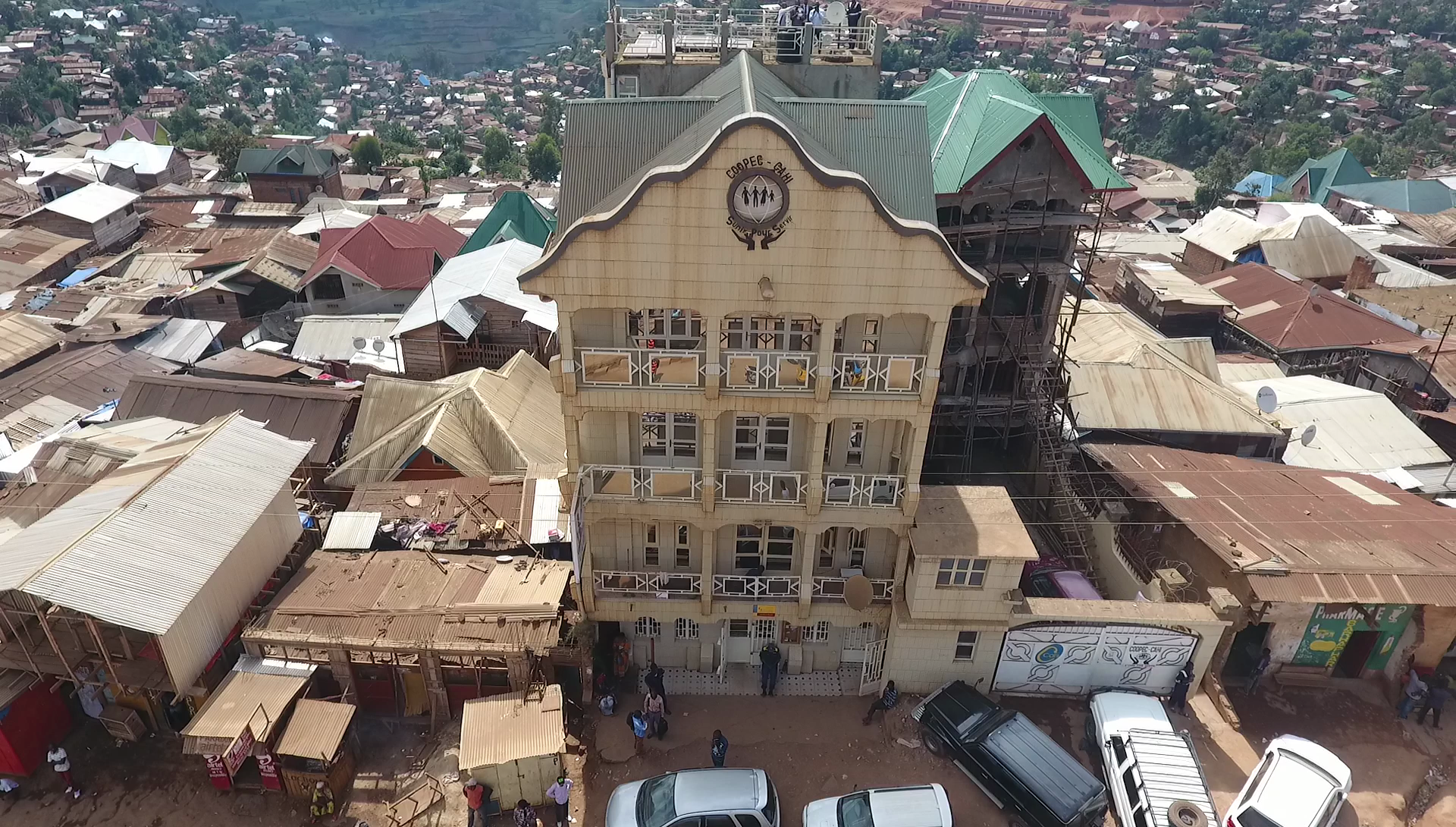 coopec cahi bukavu drc This is an image of "African people at work" from Democratic Republic of the Congo